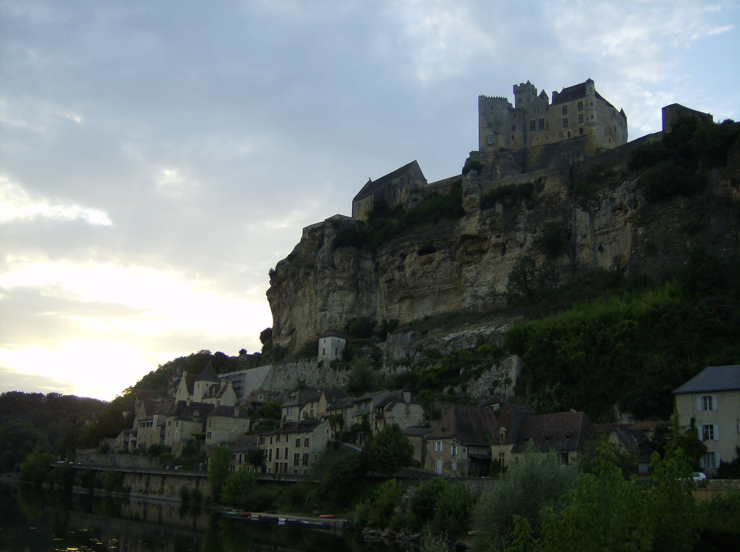 Beynac from next to river Dordogne